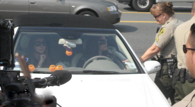 Spears in her car